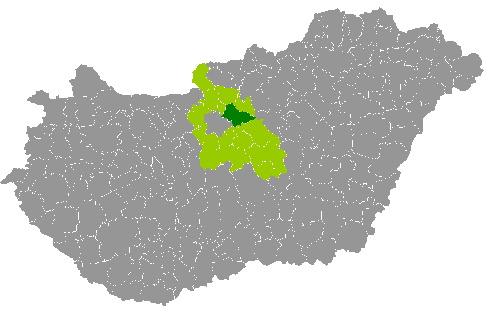 Location of Gödöllő District, Pest, Hungary